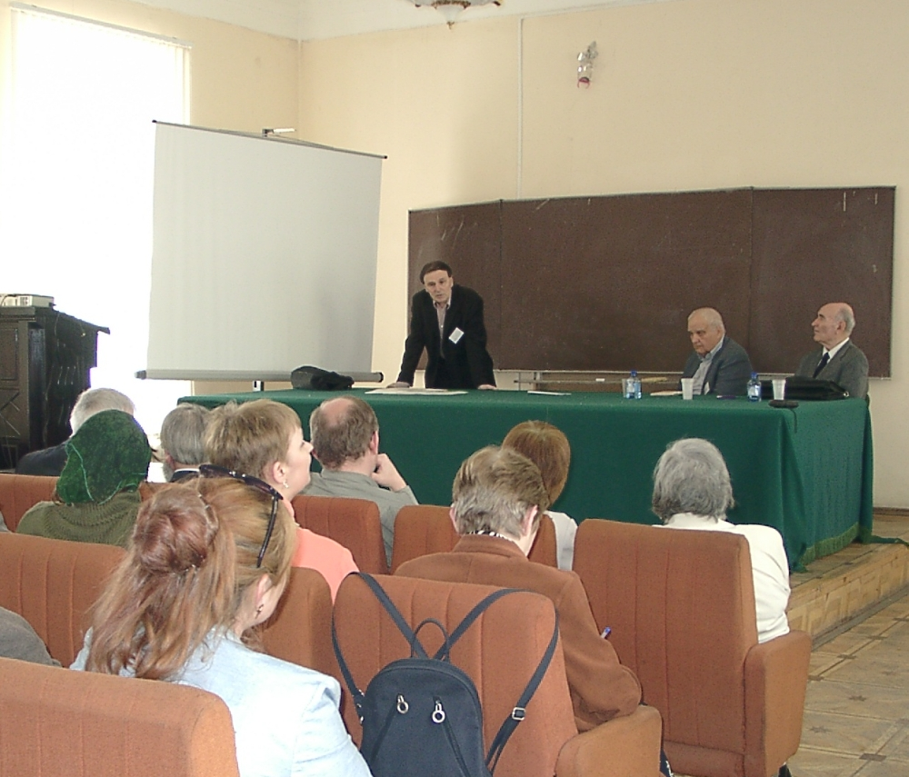 Andrey Zaliznyak's lecture (2004)